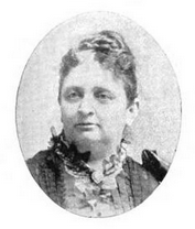 Judith Ellen Foster